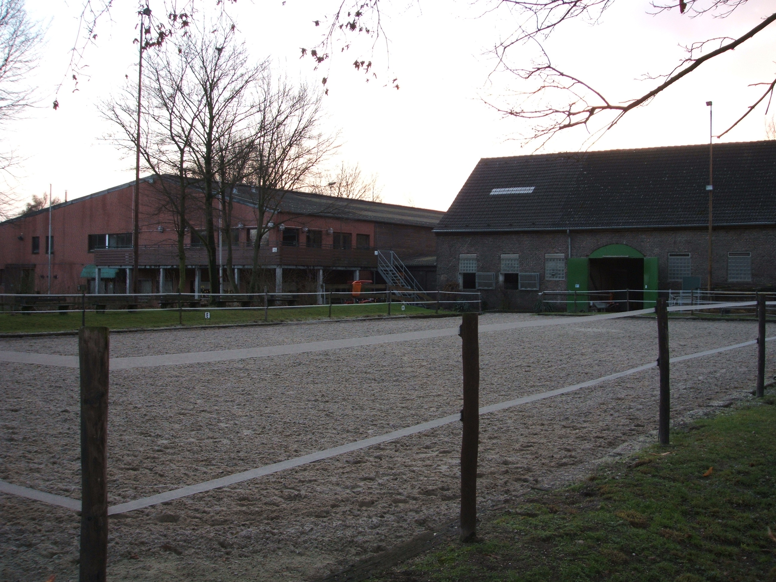 Riding stable at Biegerhof in Duisburg-Huckingen (Germany)